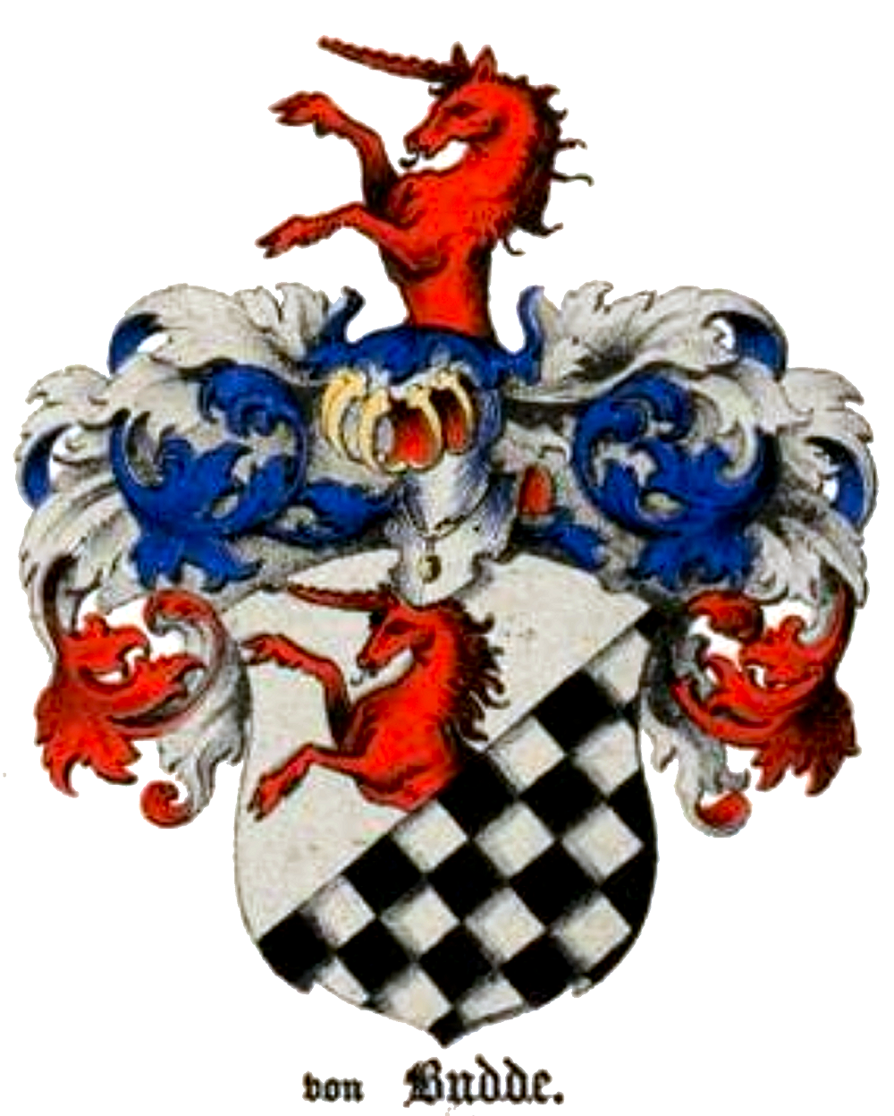 Coat of Arms of family von Budde